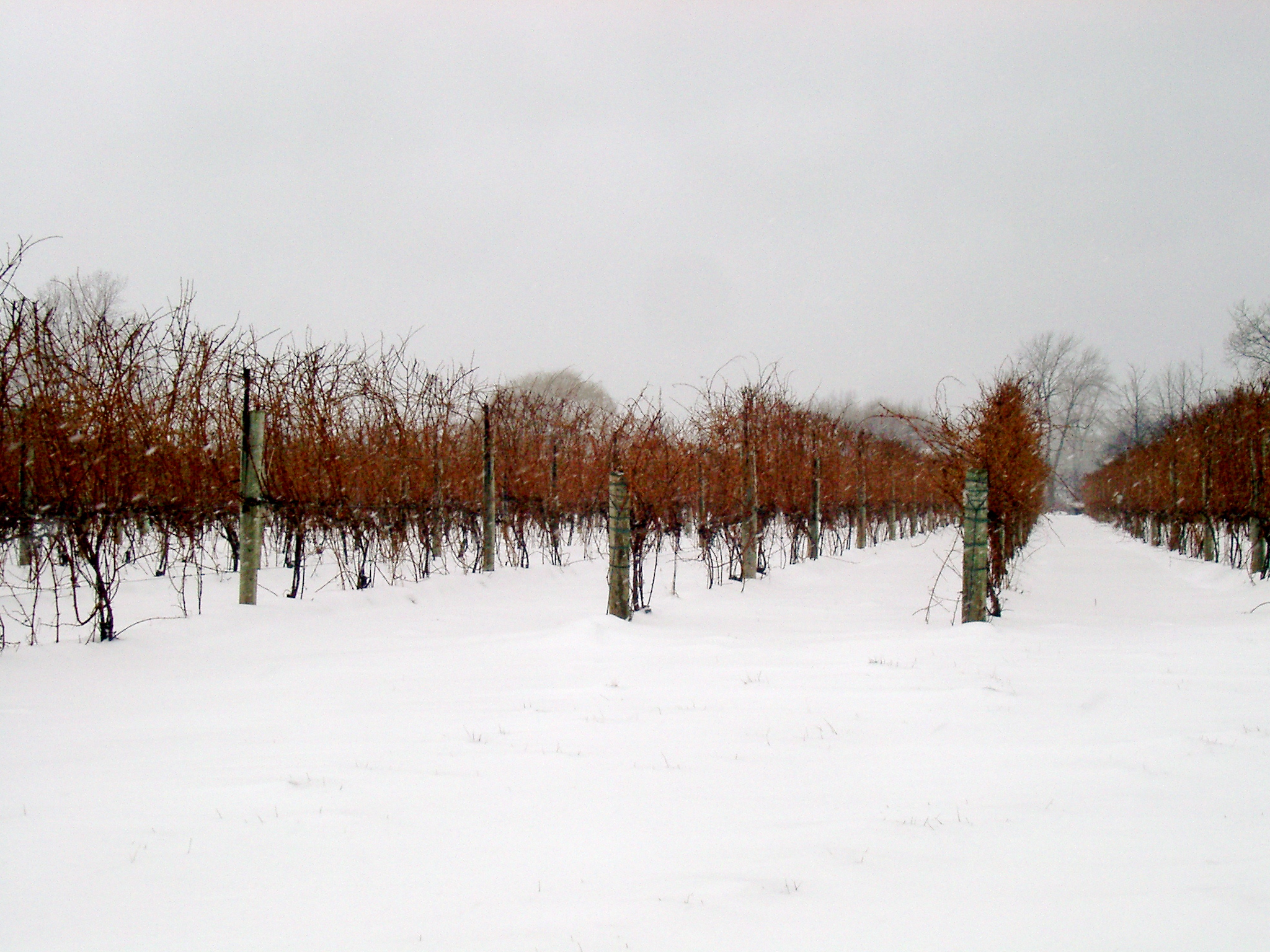 Ice Wine, Niagara Falls, Canada